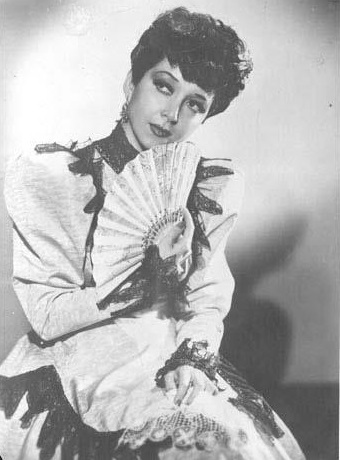 Maria Antinea- actriz and vedette